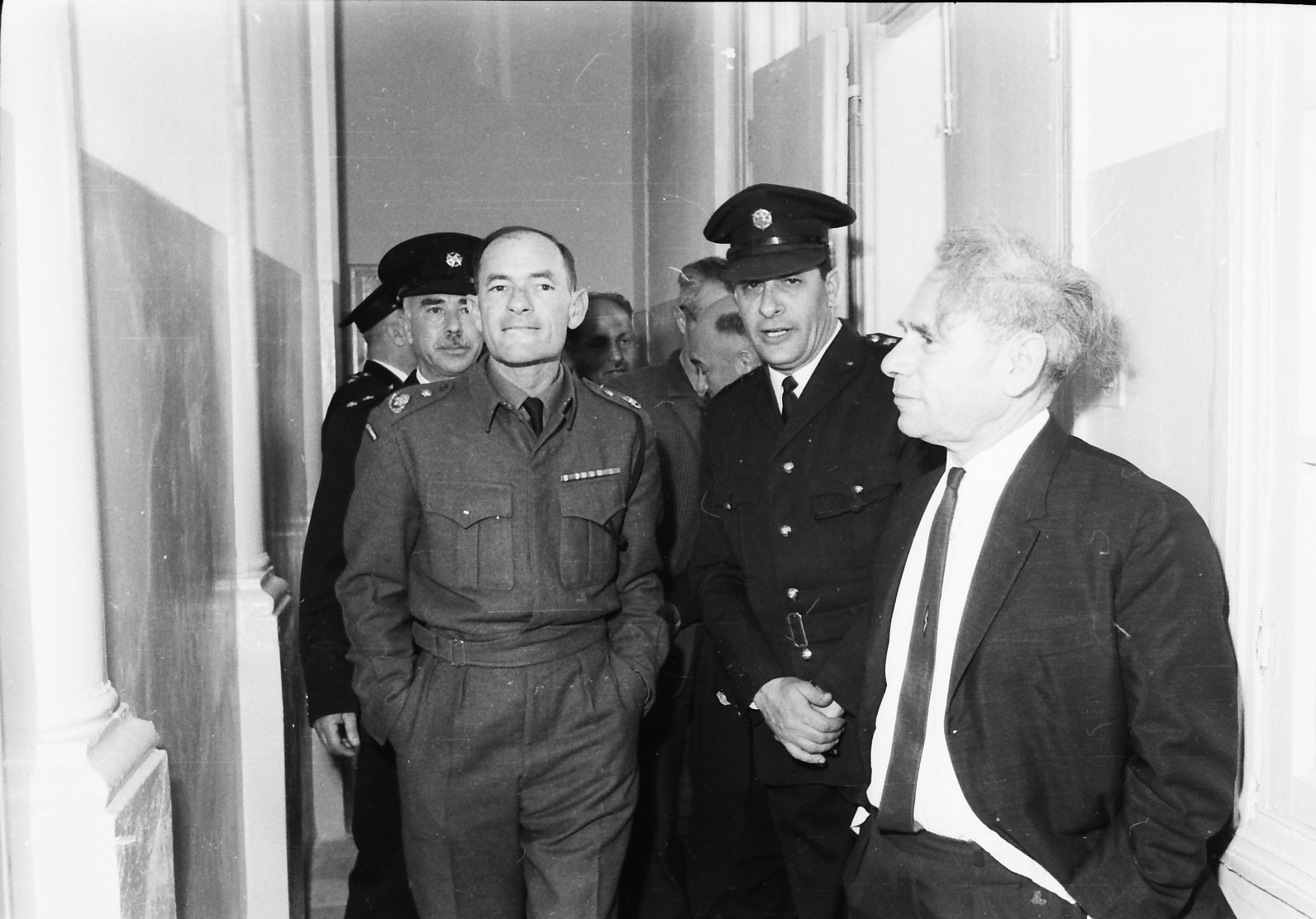 People of Israel